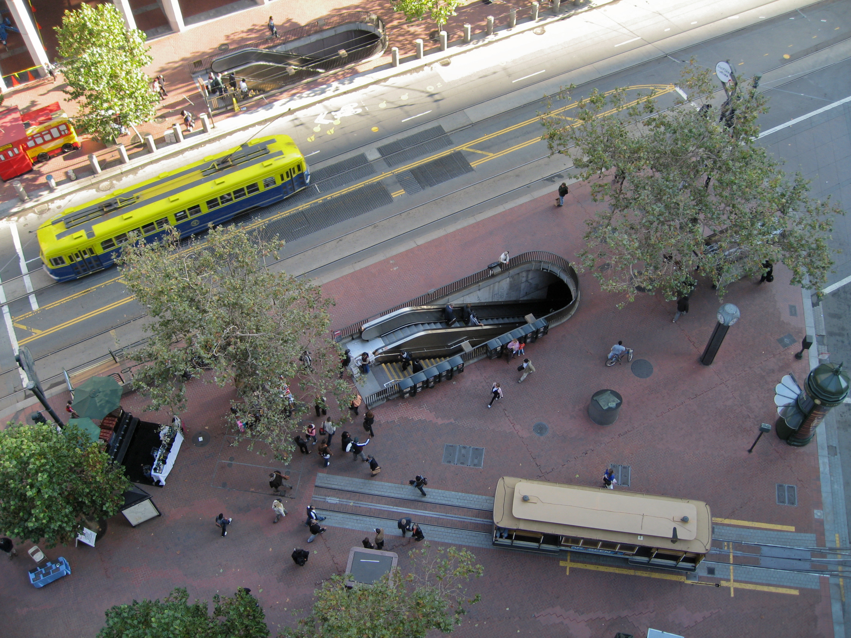 A trolley car (No. 1010), a cable car, automobiles, and a BART subway entrance at the corner of Market and Drumm Streets in San Francisco.